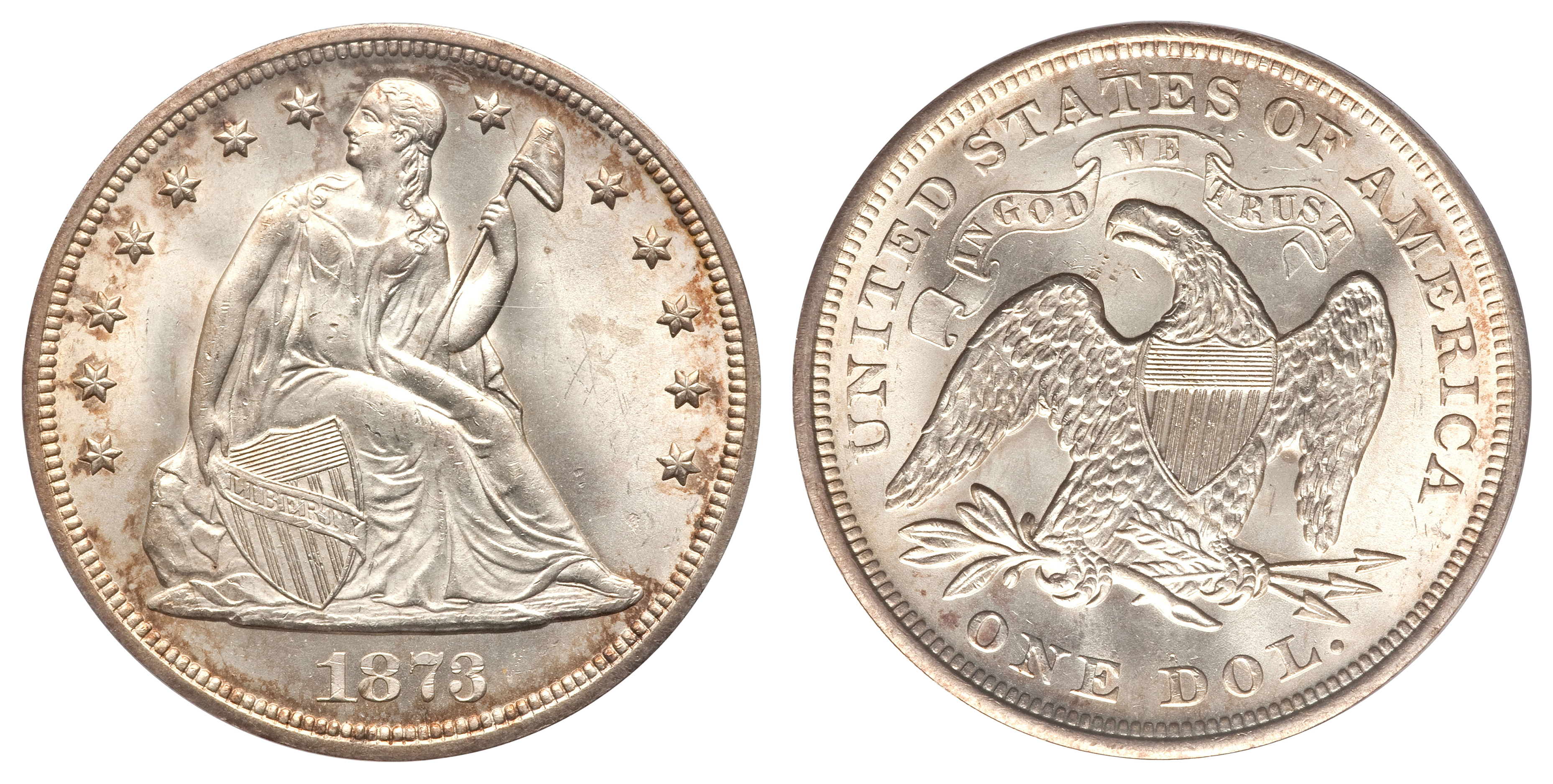 1873 $1 Seated Liberty(1143-3296)